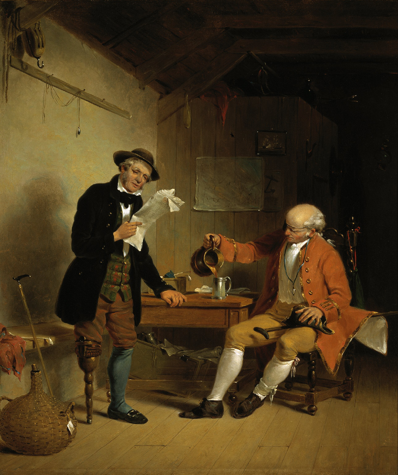 The scene is taken from an 18th-century English novel by Tobias Smollet, "The Adventures of Peregrine Pickle," in which Jack Hatchway learns from the newspaper that the Commodore's rival, Admiral Bower, has been designated a peer of the realm.